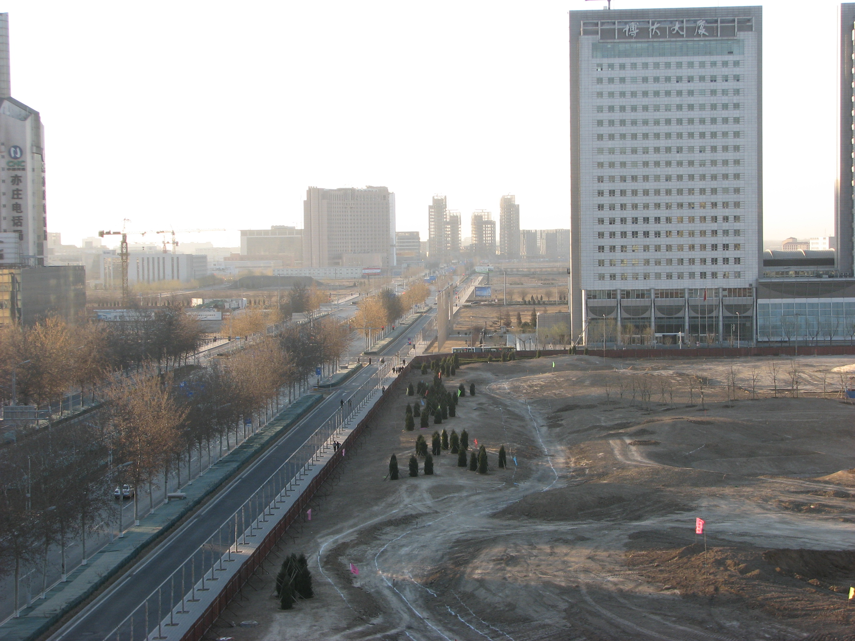 Beijing Economic and Technological Development Zone - 北京经济技术开发区